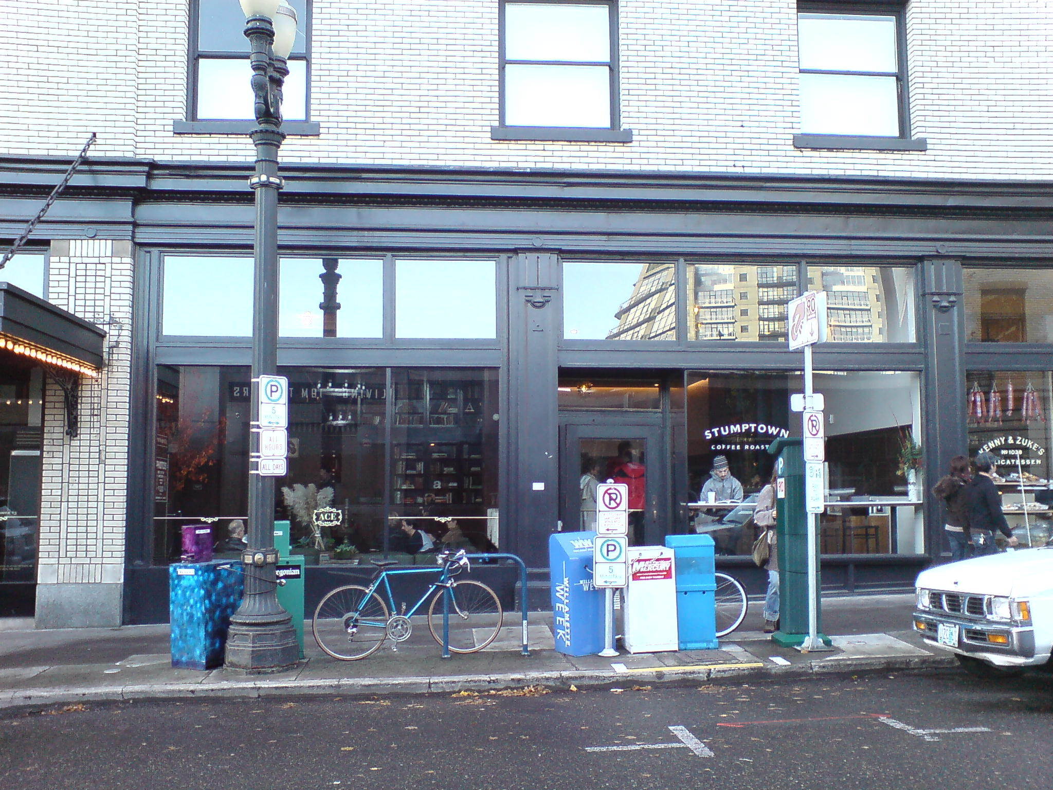 Stumptown Coffee Roasters on Stark Street in Clyde Hotel